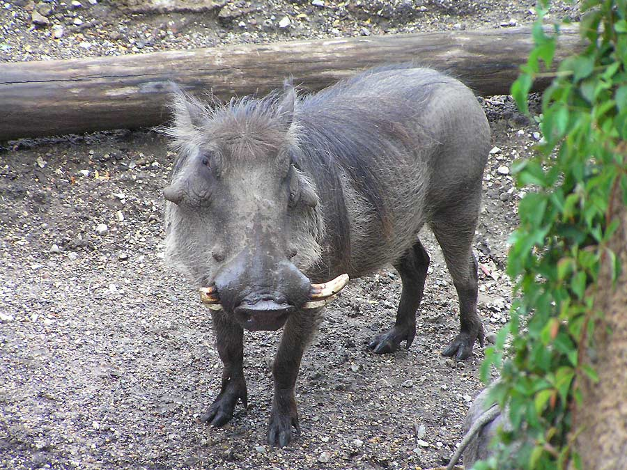 Warthog – Chicago zoo.